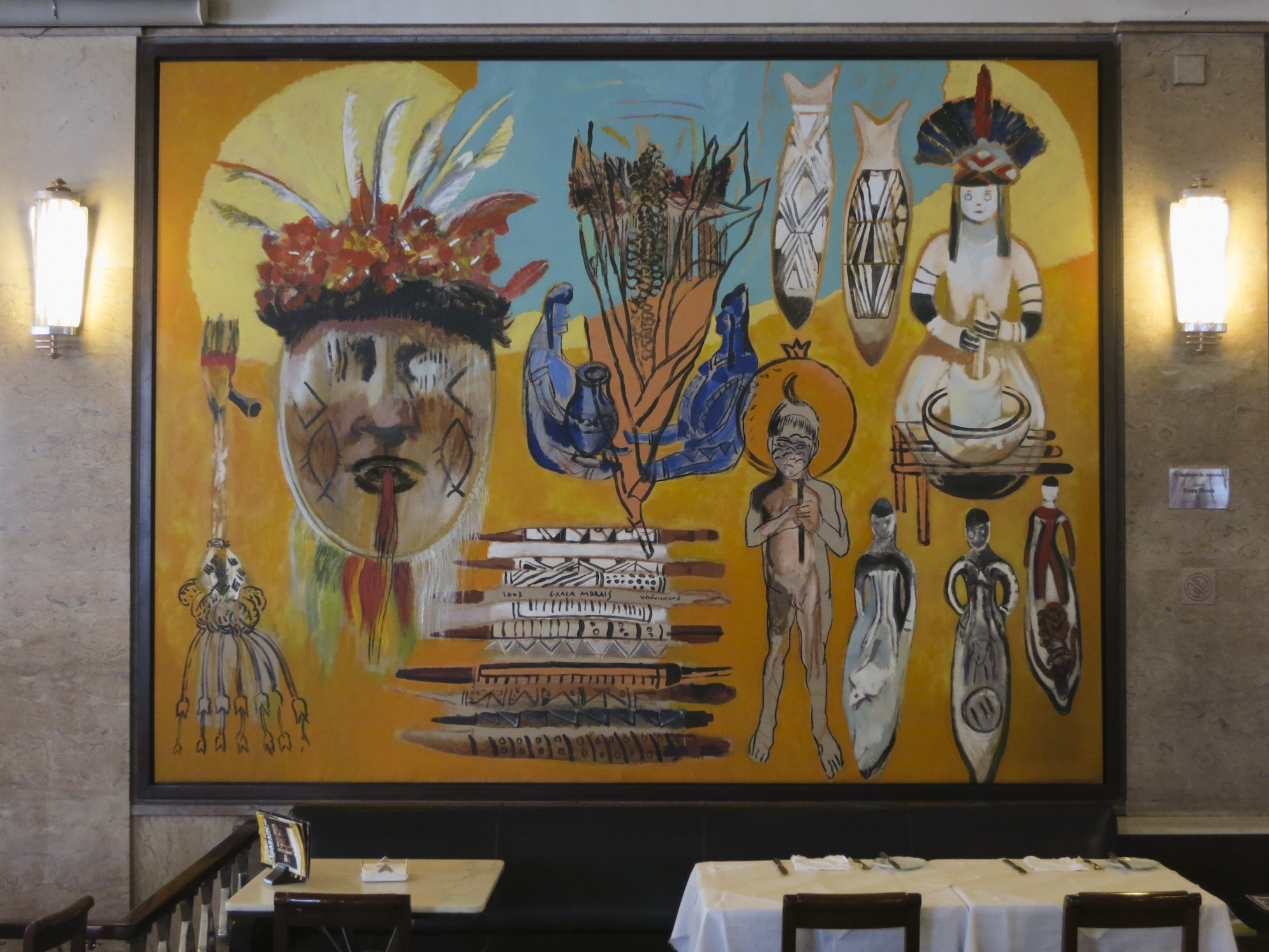 Café Guarany, Porto